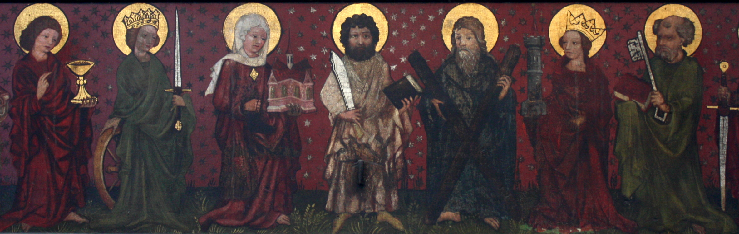 Gdańsk, St. Mary's Church